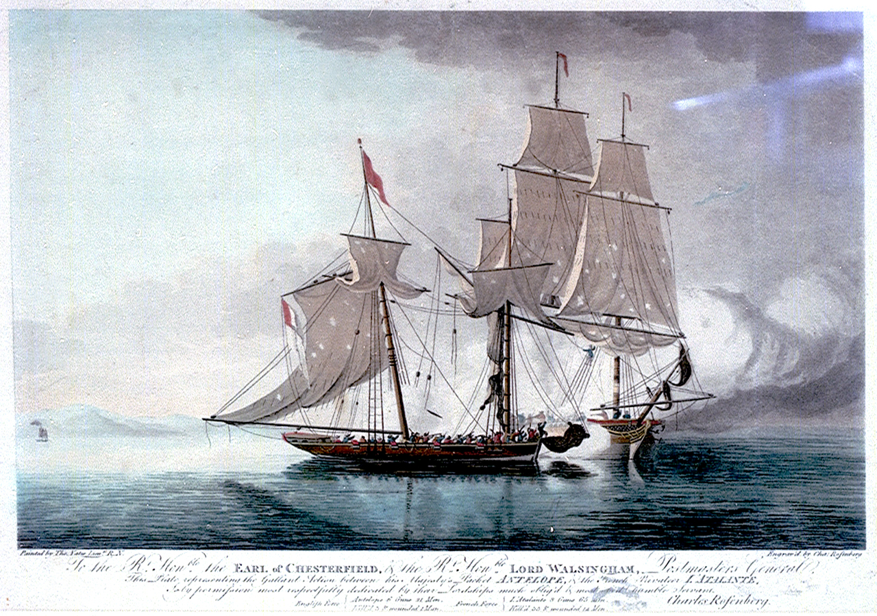 Handcoloured etching with text below the image; 279x2=372 mm. Text:To the Rt. Honble. the Earl of Chesterfield, & the Rt. Honble Lord Walsingham. - Postmasters General, This Plate representing the Gallant Action between his Majesty's Packet Antelope, & the French Privateer L' Atalante...